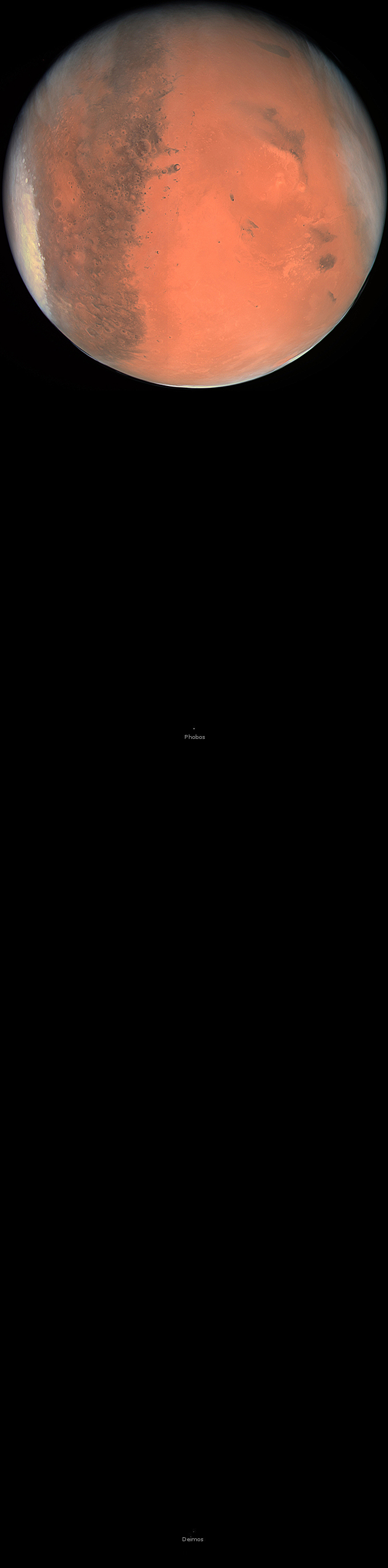 The Orbits of Phobos and Deimos to scale (1px = 10km), all sizes to scale. Click to see moons, they are invisible from this level.